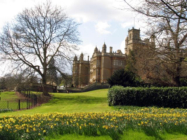 Englefield House on the Englefield Estate: Nr Reading. The house is situated in the extreme north western corner of the square. The gardens are open to the public on certain days of the week.